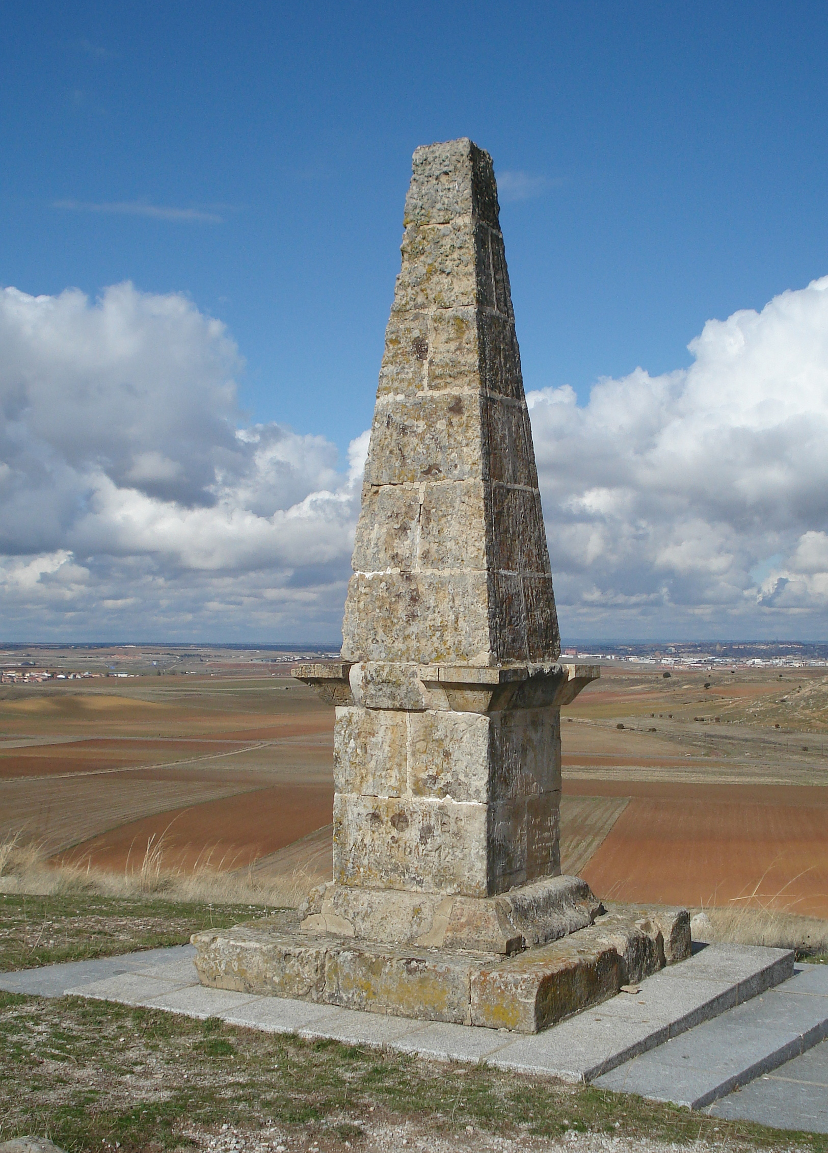 Arapile Battle Memorial 1812